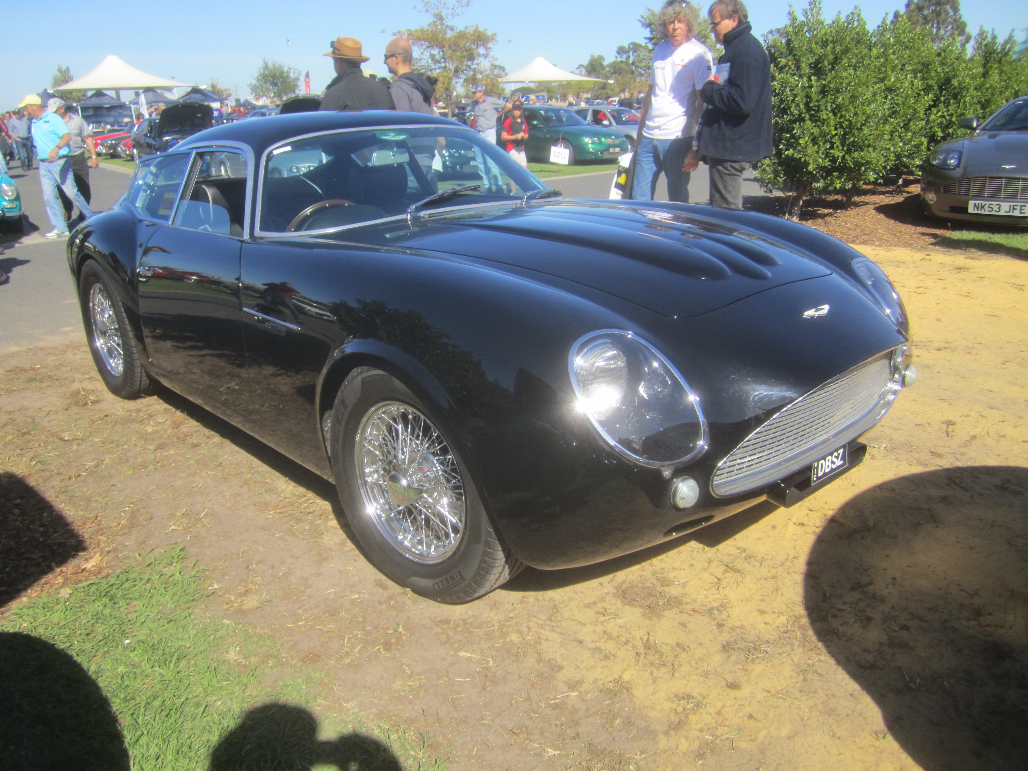 The DBSZ is a modern, hand-crafted interpretation of the legendary Aston Martin DB4GT Zagato. With the improved rear suspension, wider track and larger brakes derived from a DBS donor vehicle, the DBSZ offers enhanced performance and handling. Engines; 4 litre 6 cyl twin cam from the Vantage or the V8 from the DBS